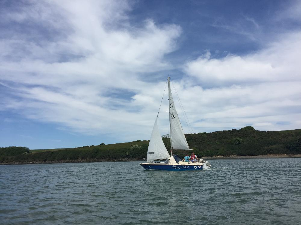 Sailing (early model)